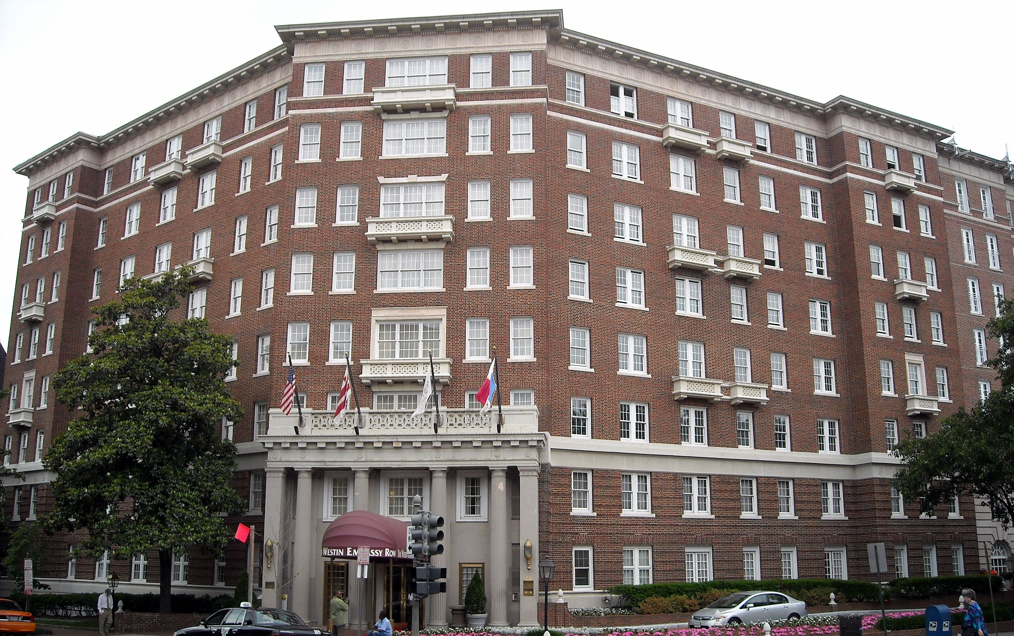 The Fairfax at Embassy Row, a Luxury Collection Hotel, (formerly known as the Westin Embassy Row Hotel, the Ritz-Carlton Washington, D.C., and originally, The Fairfax) located at 2100 Massachusetts Avenue, N.W., in the Dupont Circle neighborhood of Washington, D.C. Built in 1927 to the designs of architect B. Stanley Simmons, The Fairfax is designated as a contributing property to the Dupont Circle Historic District and the Massachusetts Avenue Historic District.